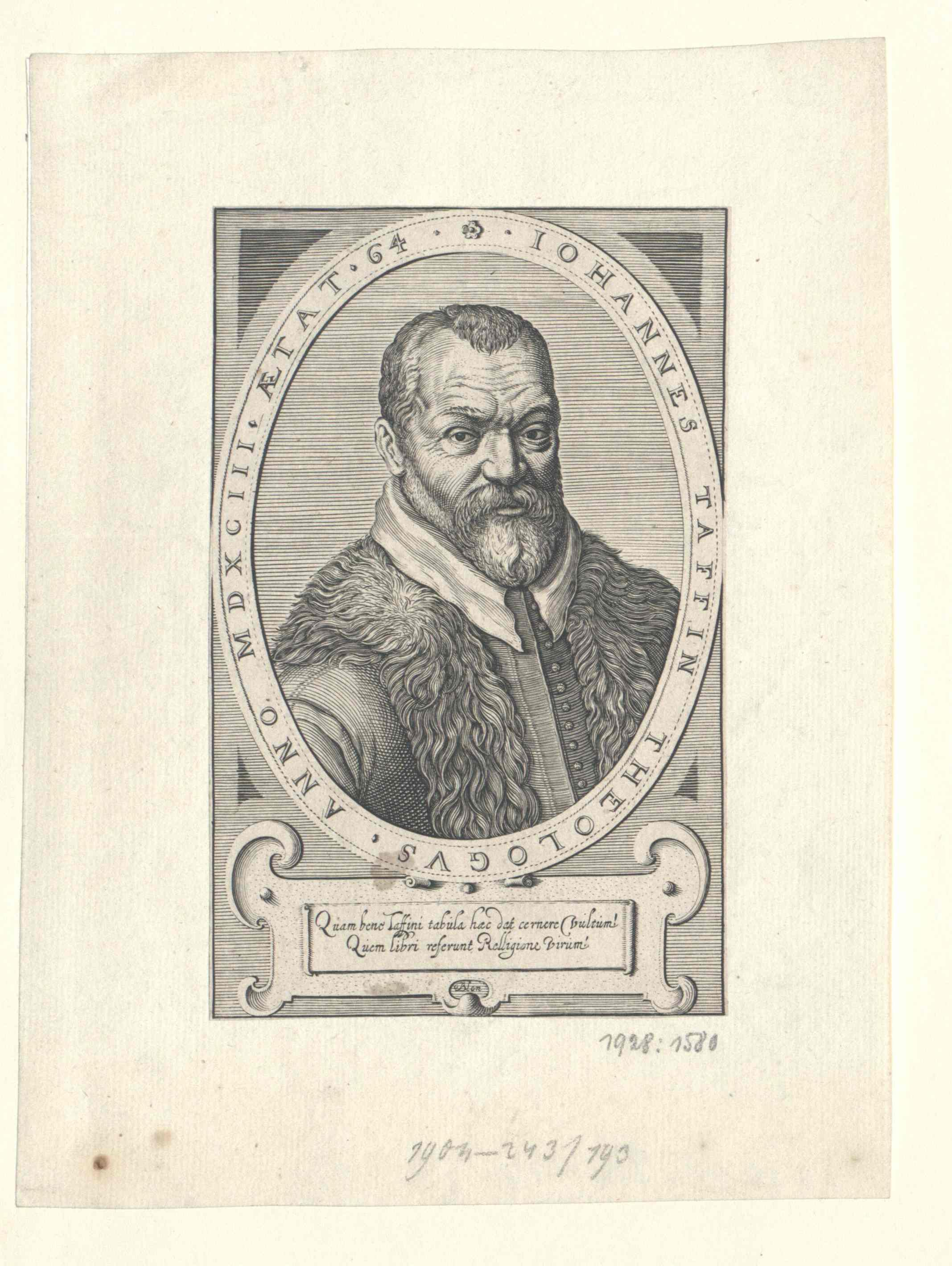 Portrait of Jean Taffin